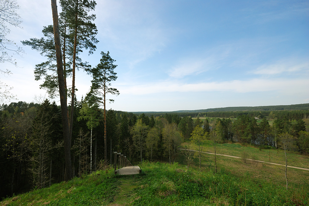 View from Stirniai hillfort